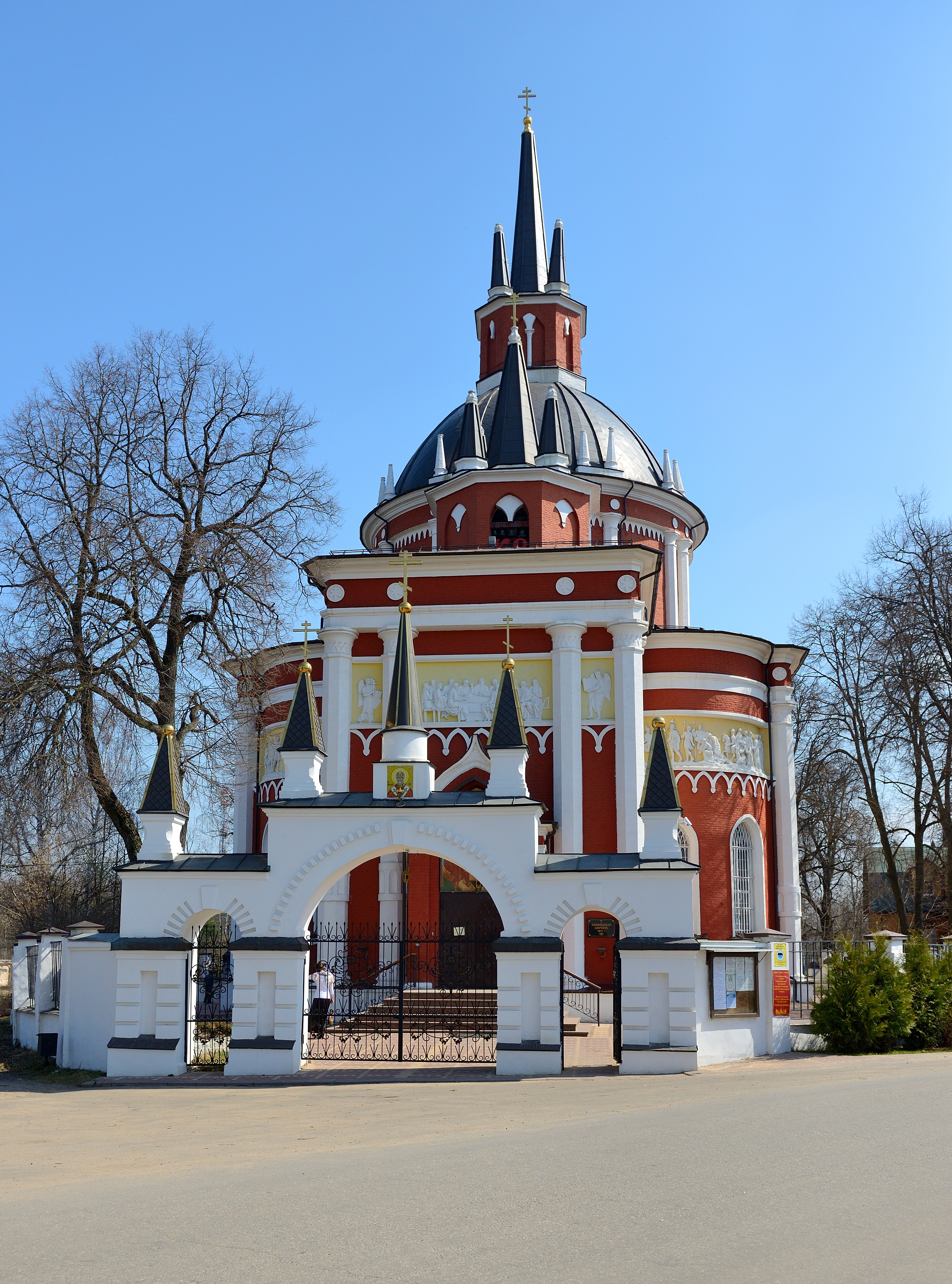 Church of St. Nicholas in Tsarevo, Moscow region, 1815